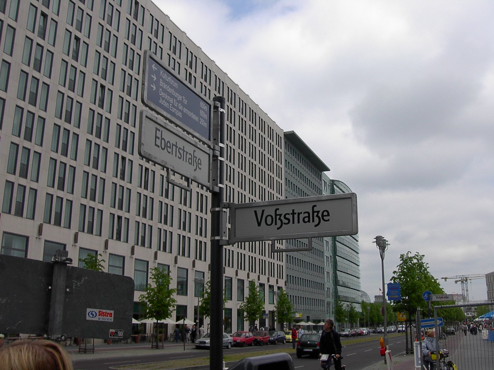 Beisheim Center, May 2006